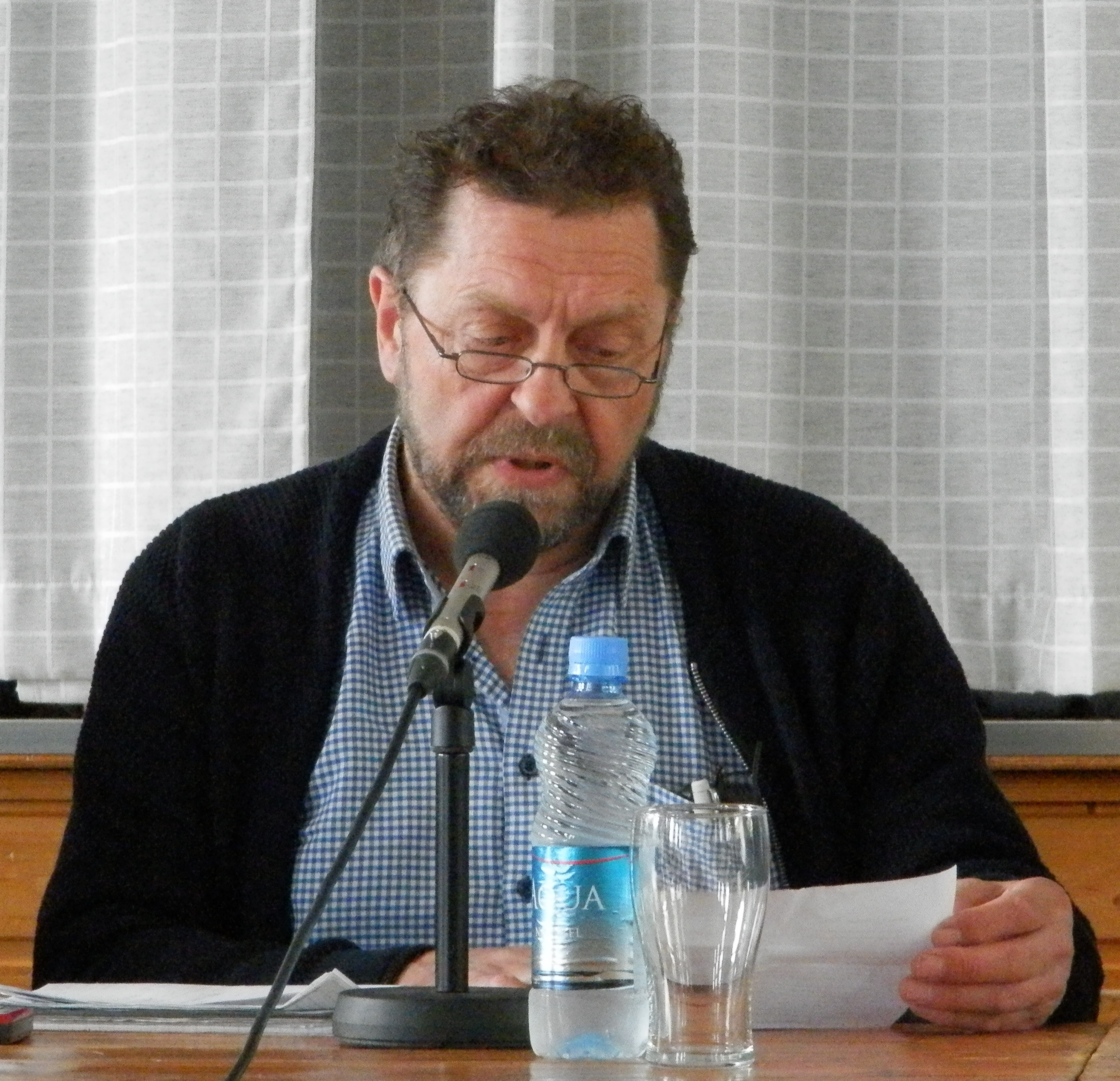 Hans Jacob Hermansen is a Faroese politician and chair member and former president of the Grindamannafelag.